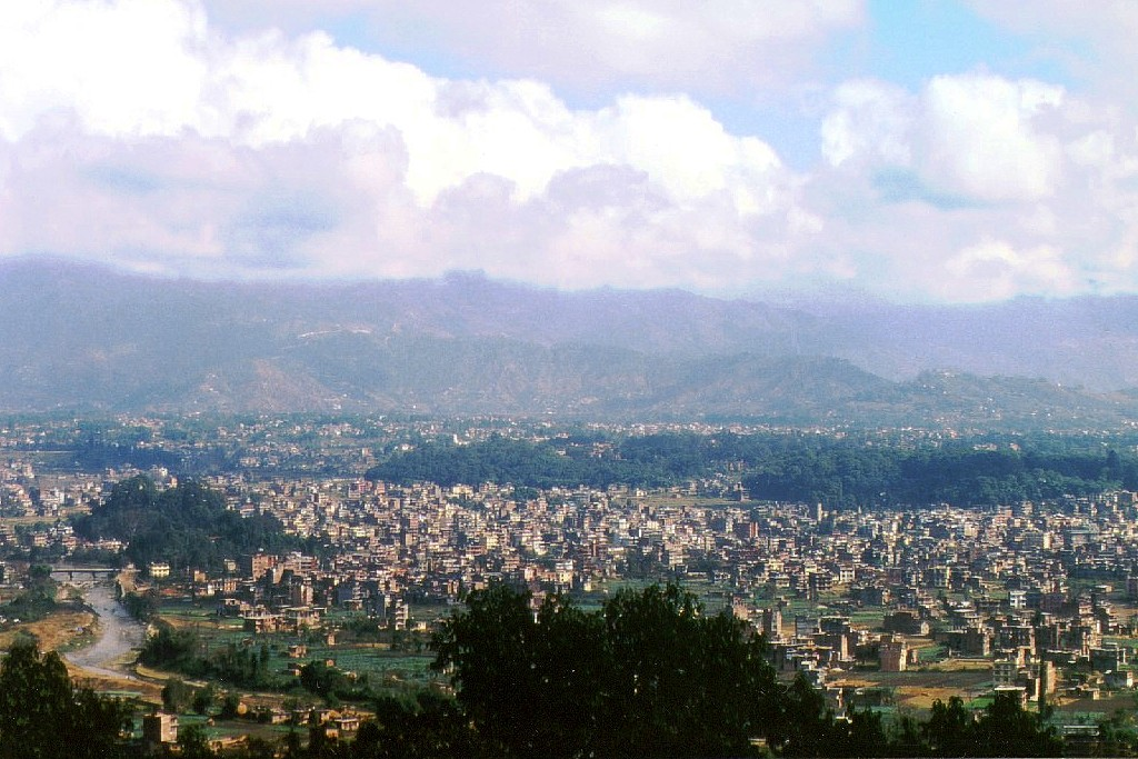 Looking north-east across Kathmandu valley from Swayambunath (Monkey Temple). Vishnumati River on the left.